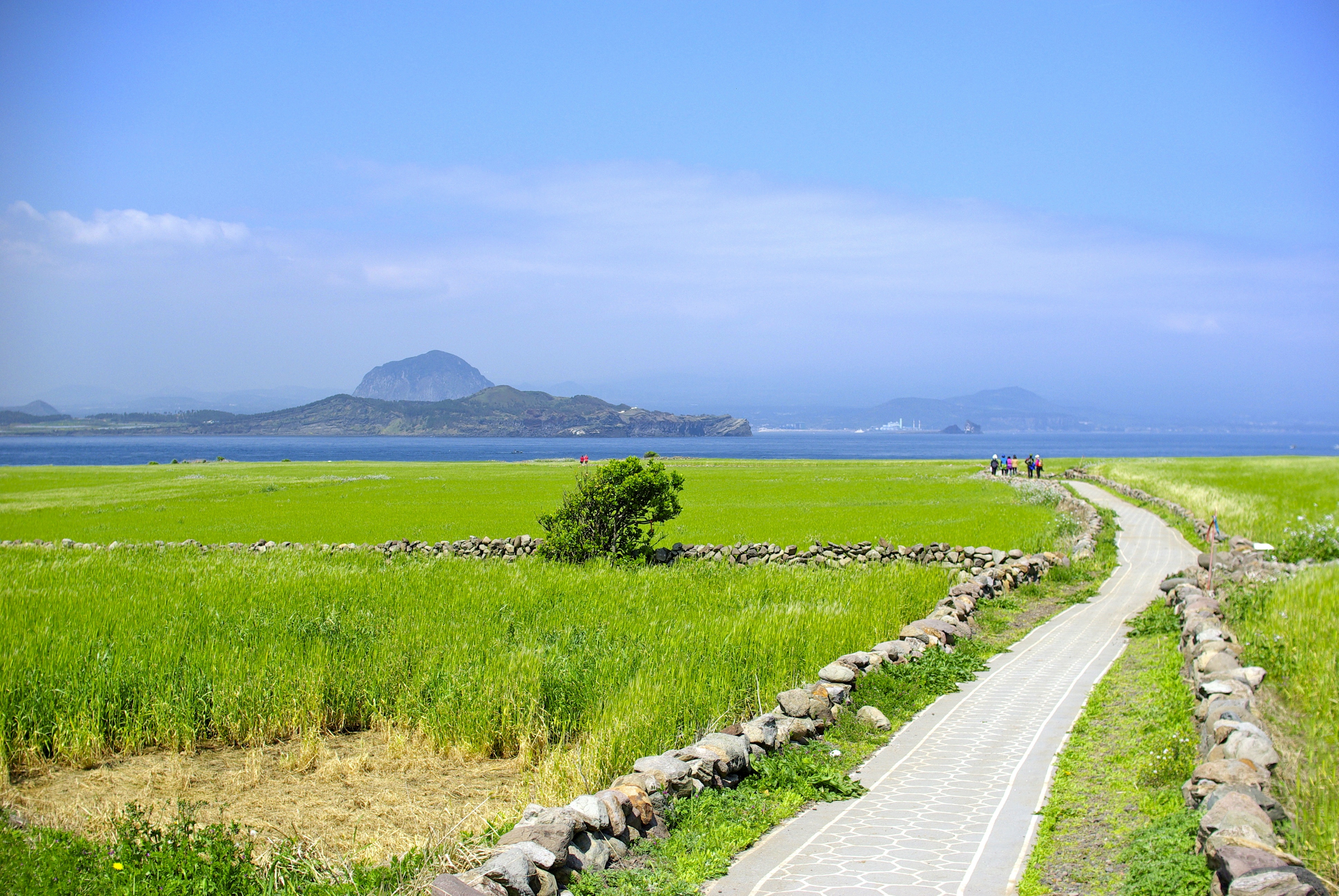 A view from Gapado Island. Sanbangsan(Mt. Sanbang) and Songaksan are shown at left side of the center.